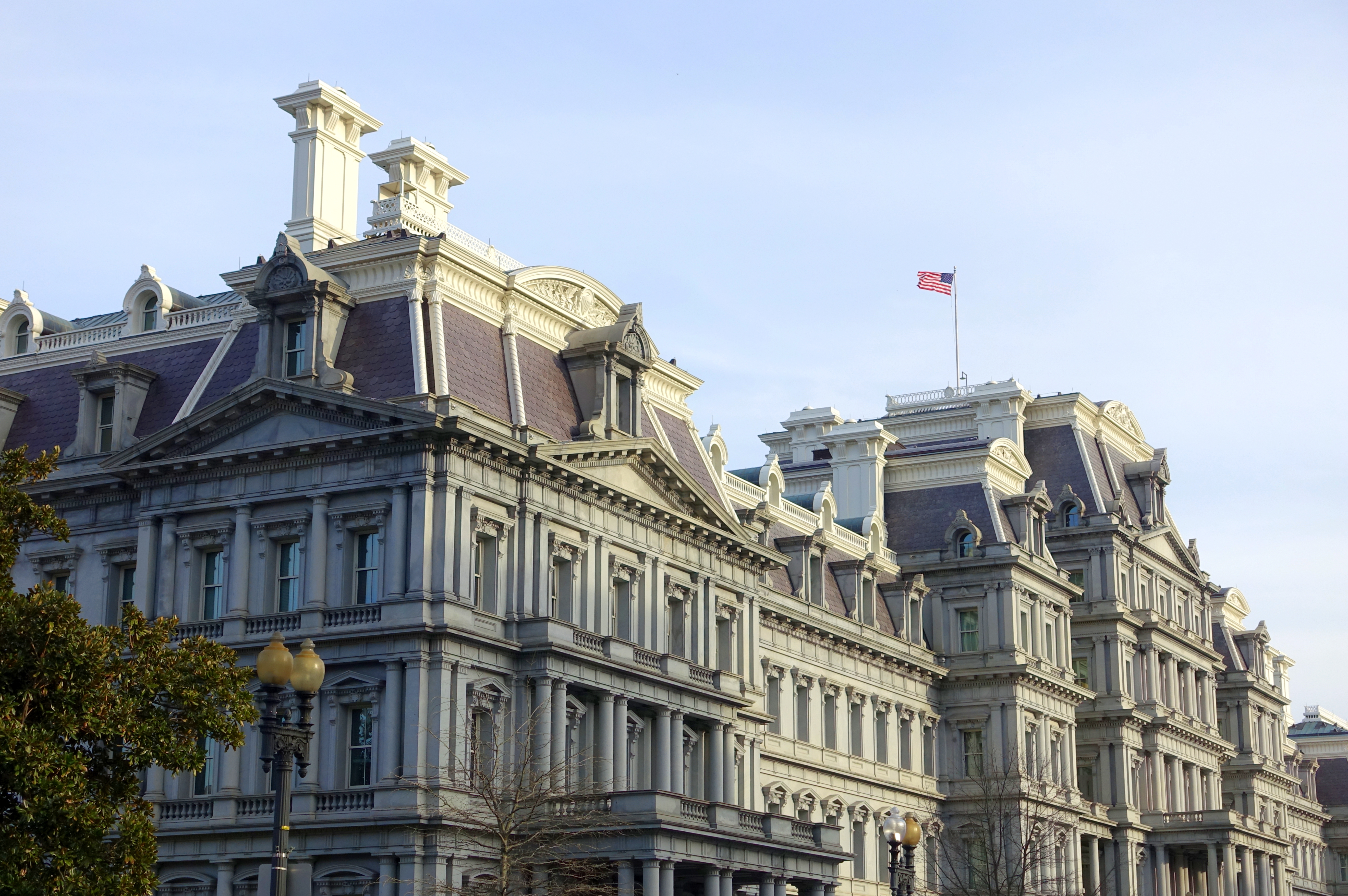 Eisenhower Executive Office Building - Washington, DC, USA.